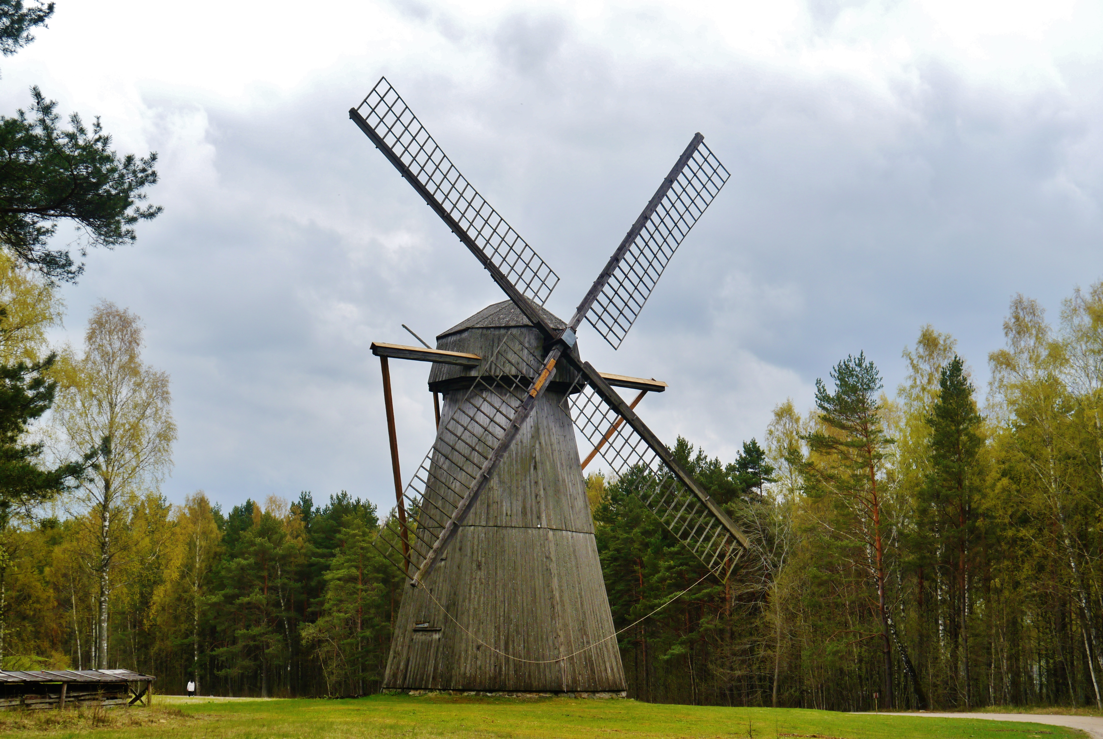 Great Windmill at the Estonian Open Air Museum Rocca al Mare, Tallin, Estonia